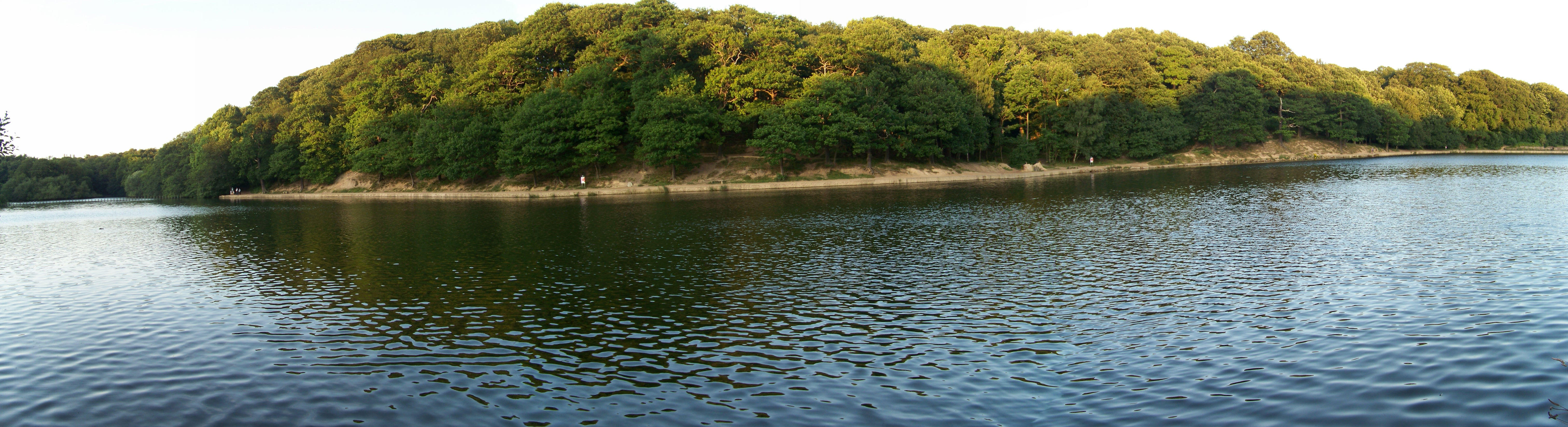 A panorama image of Waterloo Lake, Roundhay Park, Roundhay, Leeds, West Yorkshire, UK. Taken on the evening of Thursday 16th July 2009.